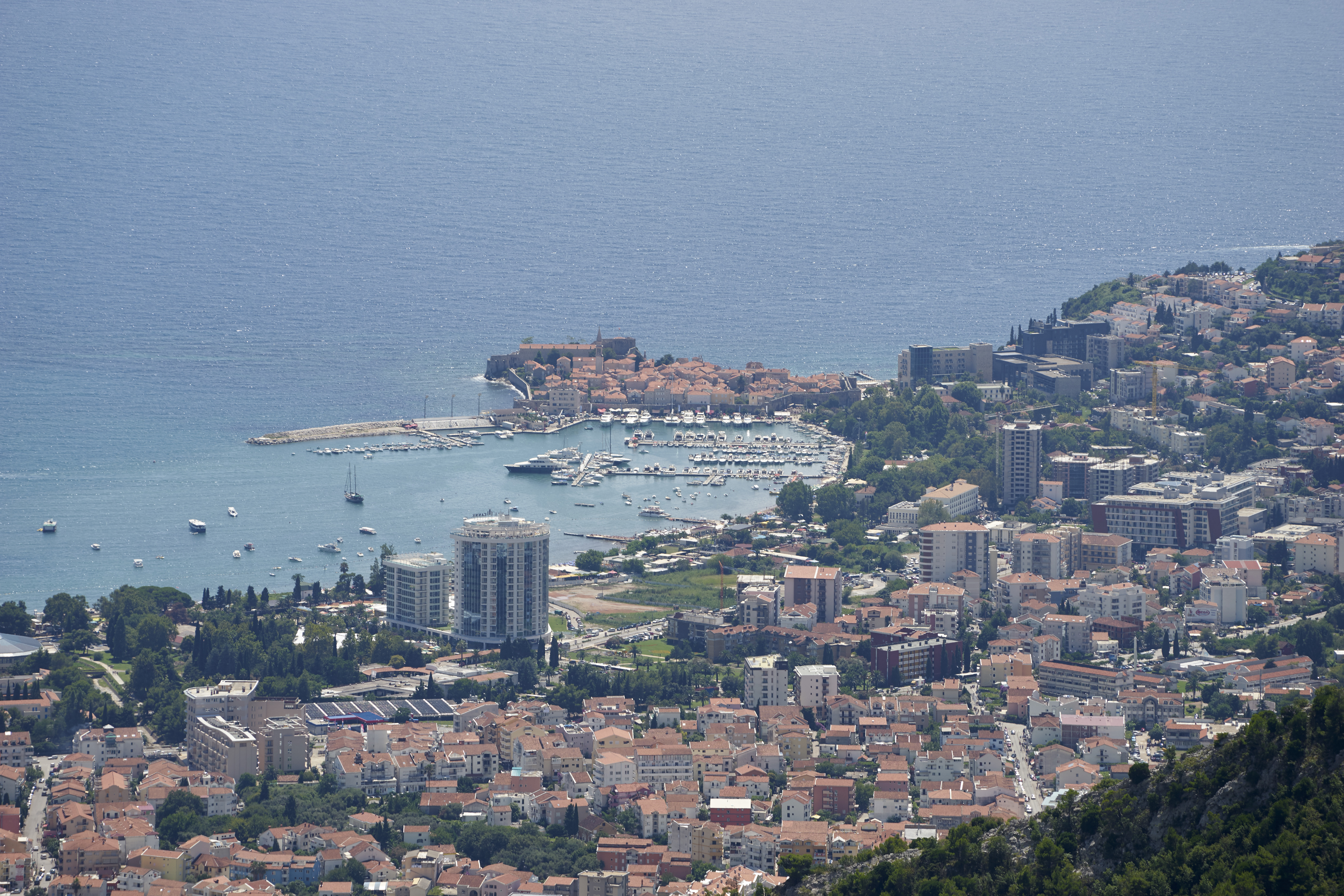 Budva, Montenegro, as seen from the hills.